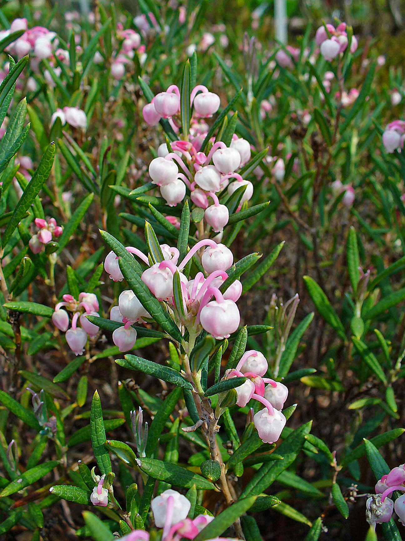 Andromeda polifolia, Ericaceae, Bog-rosemary, habitus; Botanical Garden KIT, Karlsruhe, Germany. The plant is used in homeopathy as remedy: Andromeda polifolia (Andro-p.)